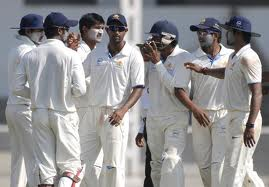 aa